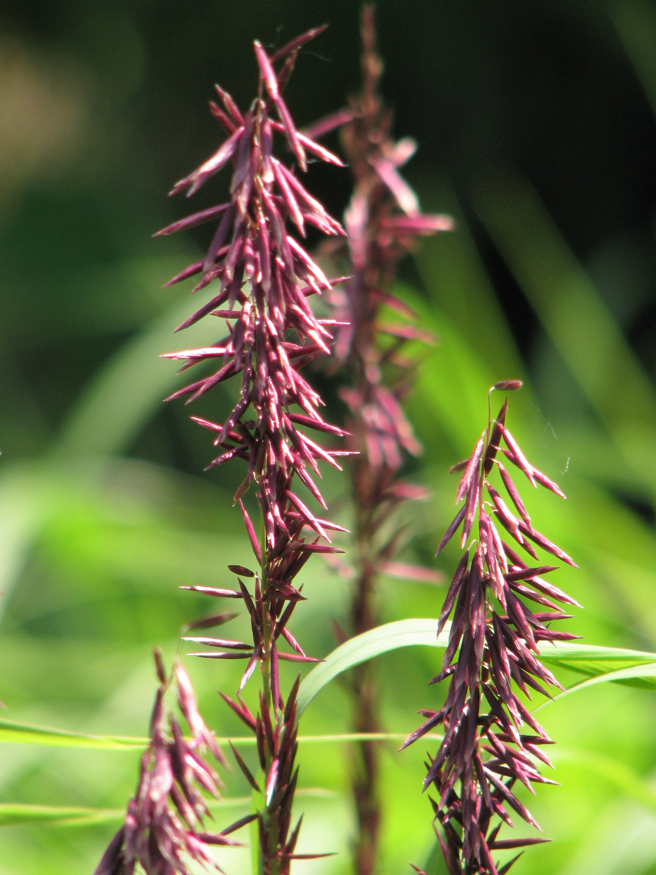 Melica altissima 'Atropurpurea', plant cultivated in Wrocław University Botanical Garden, Wrocław, Poland.